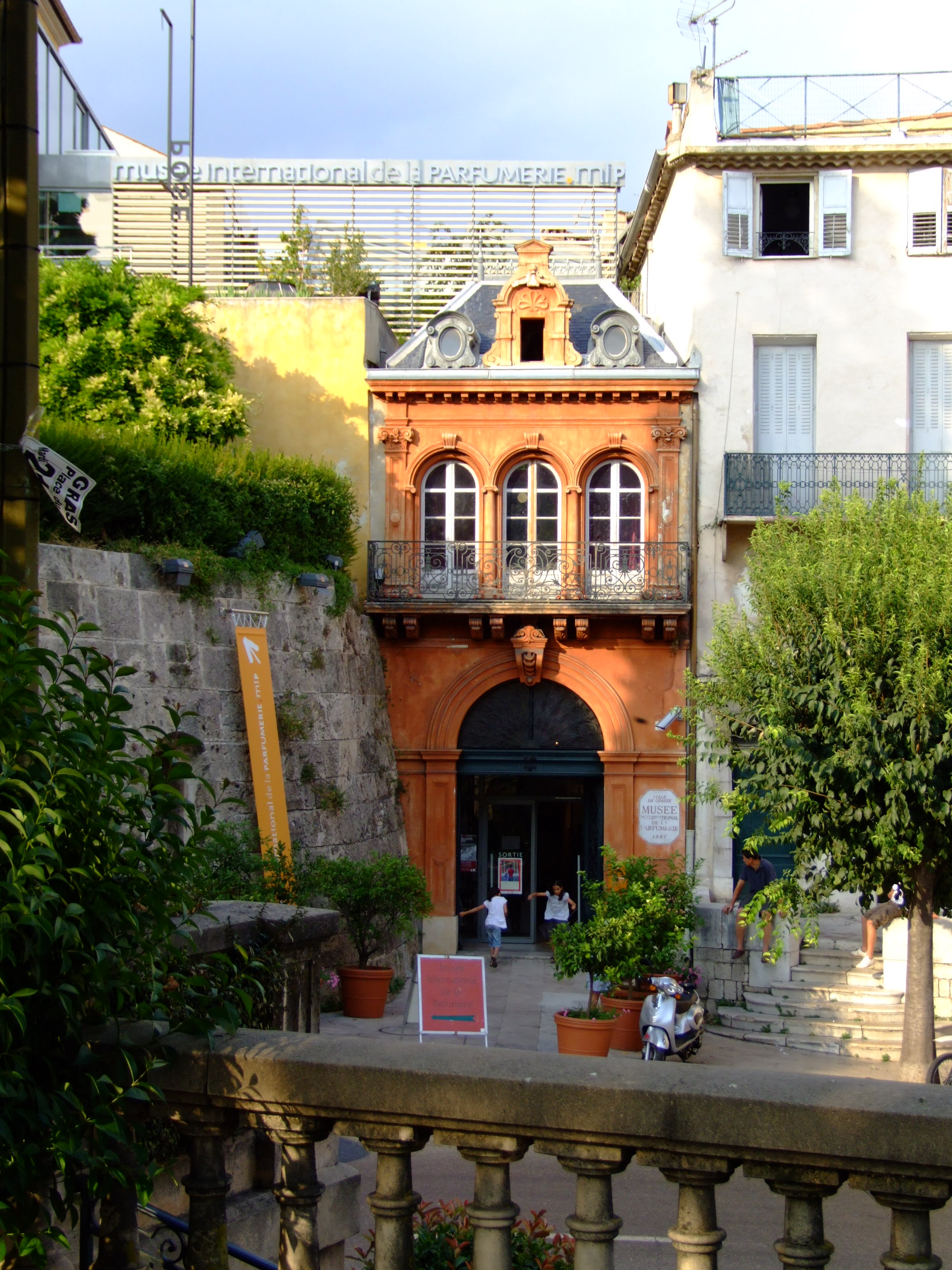 Grasse, France